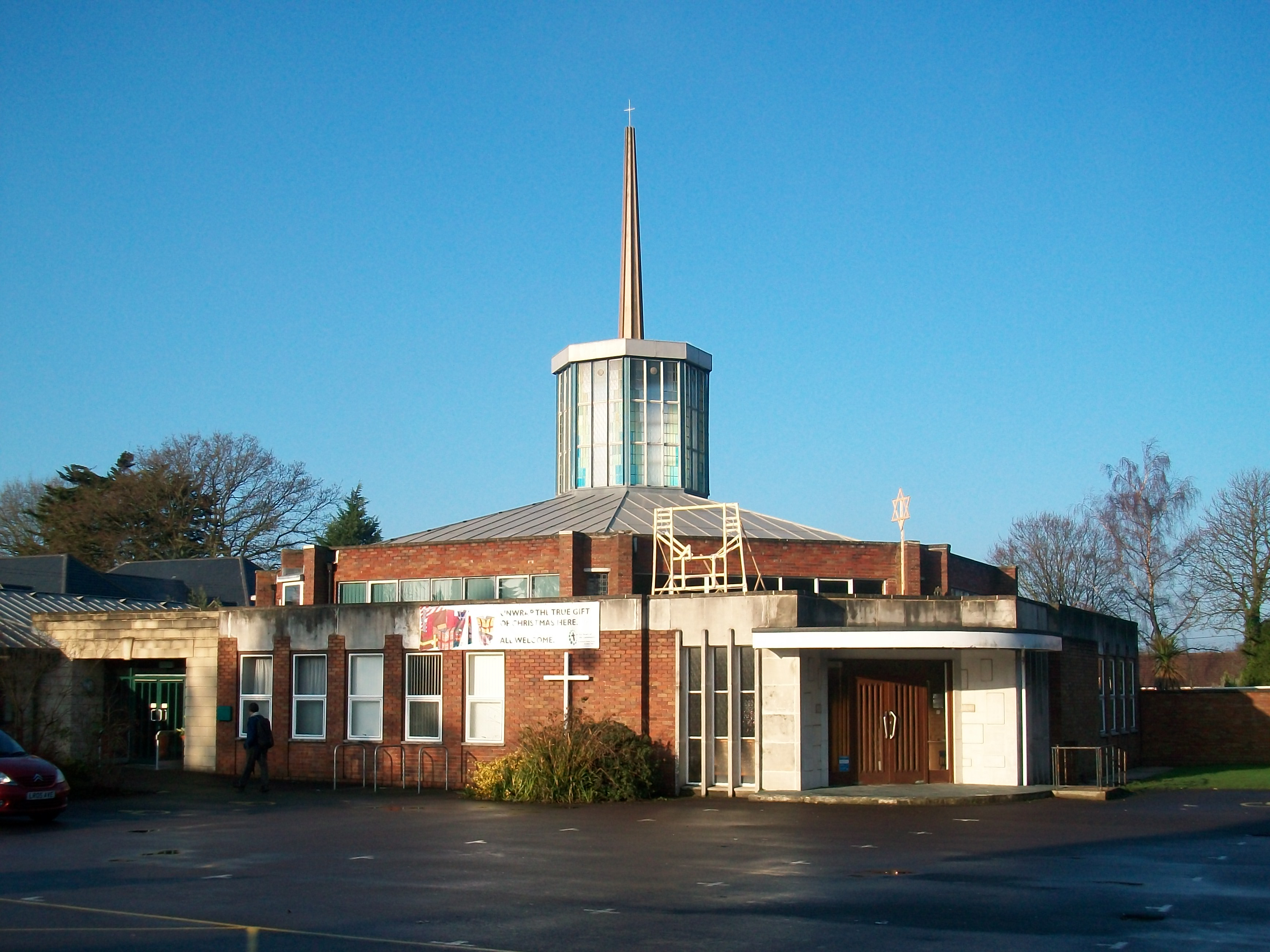 The exterior of St Andrew's Church in Dibden Purlieu, Hampshire, UK.